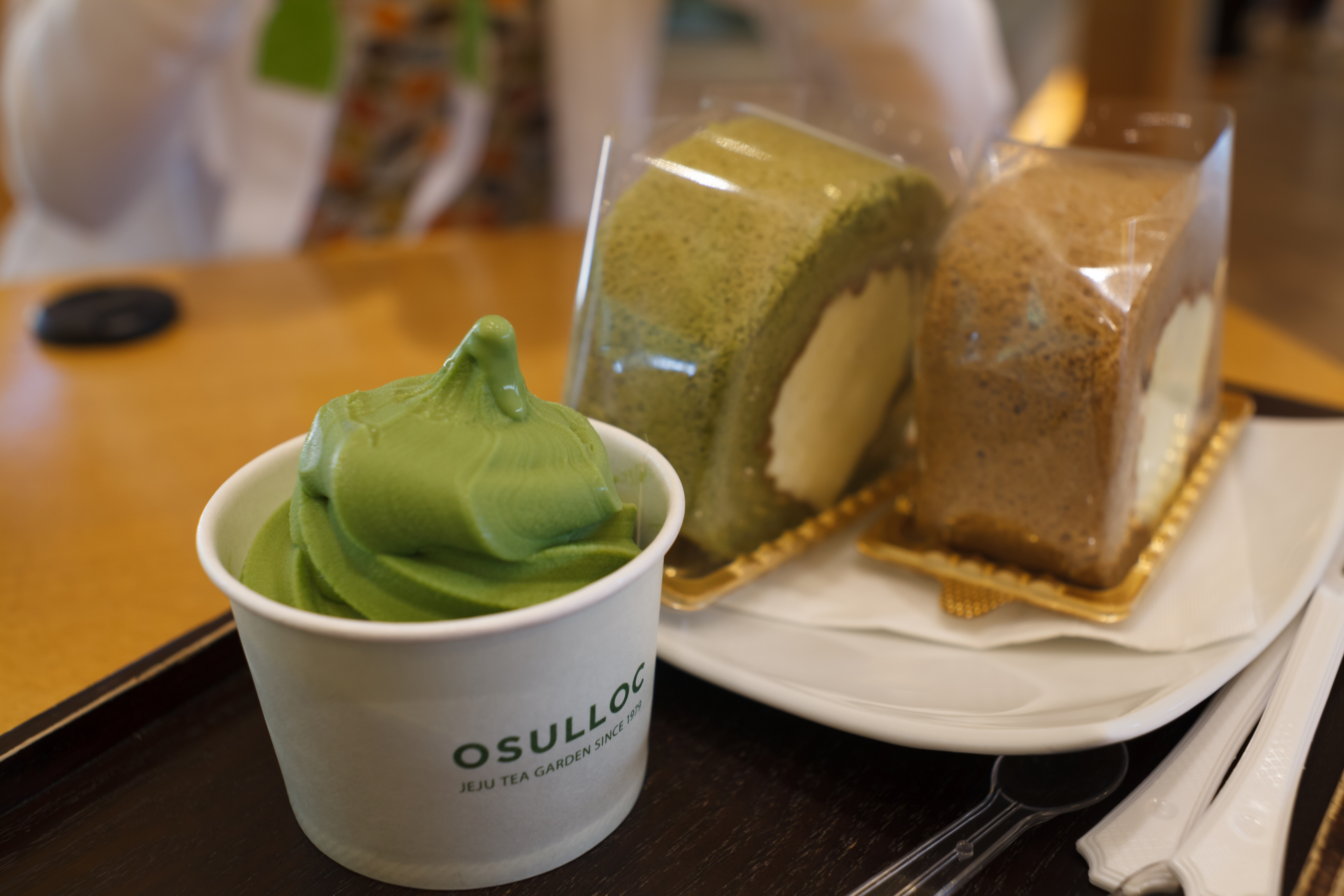 Green tea ice cream, green tea roll cake, and samdayeon post-fermented tea roll cake